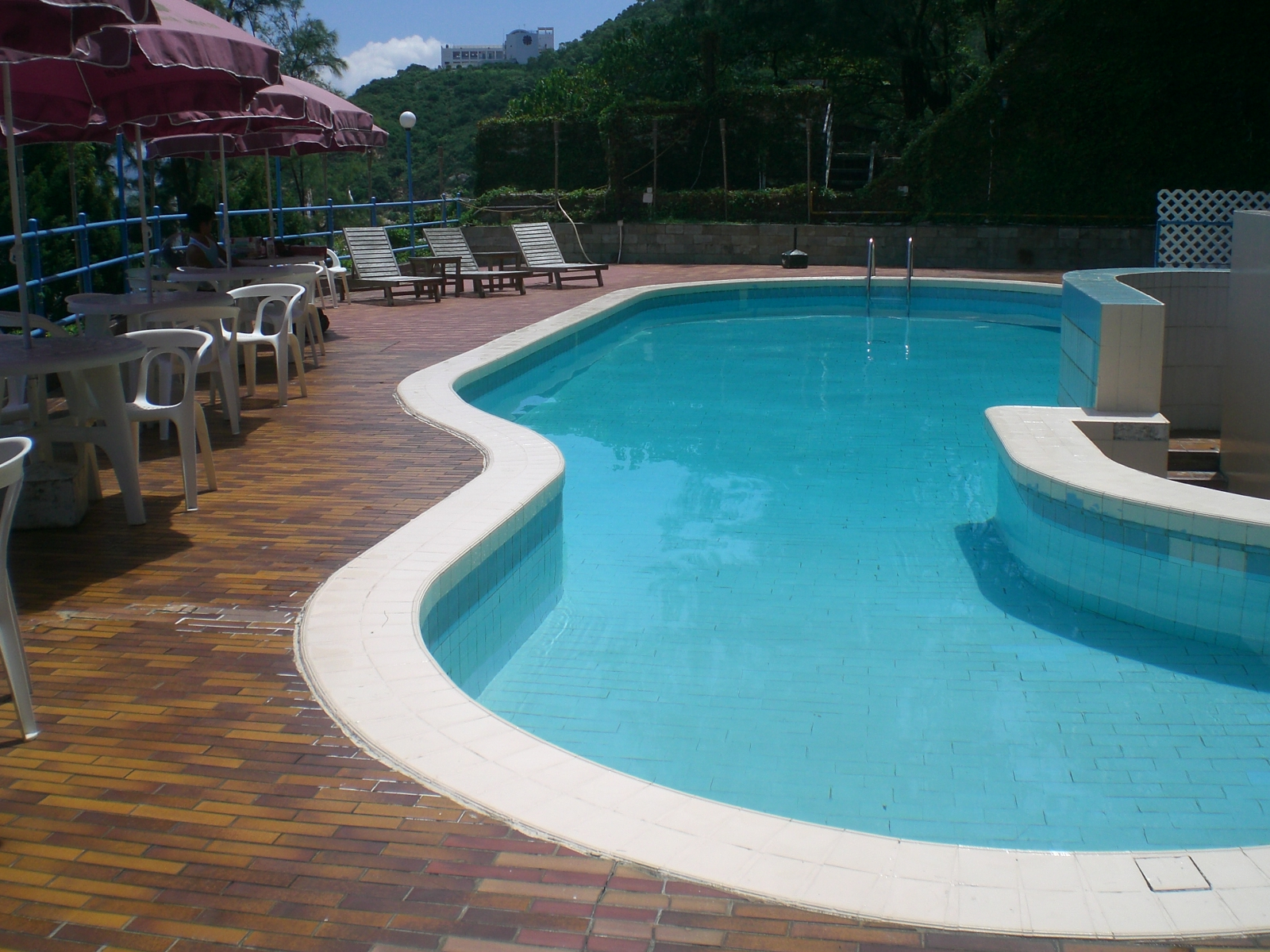 長洲華威酒店位於長洲zh:東灣 (長洲)海灘毗連